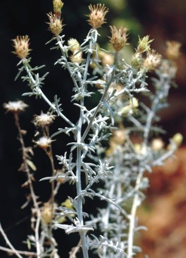 Centaurea soskae